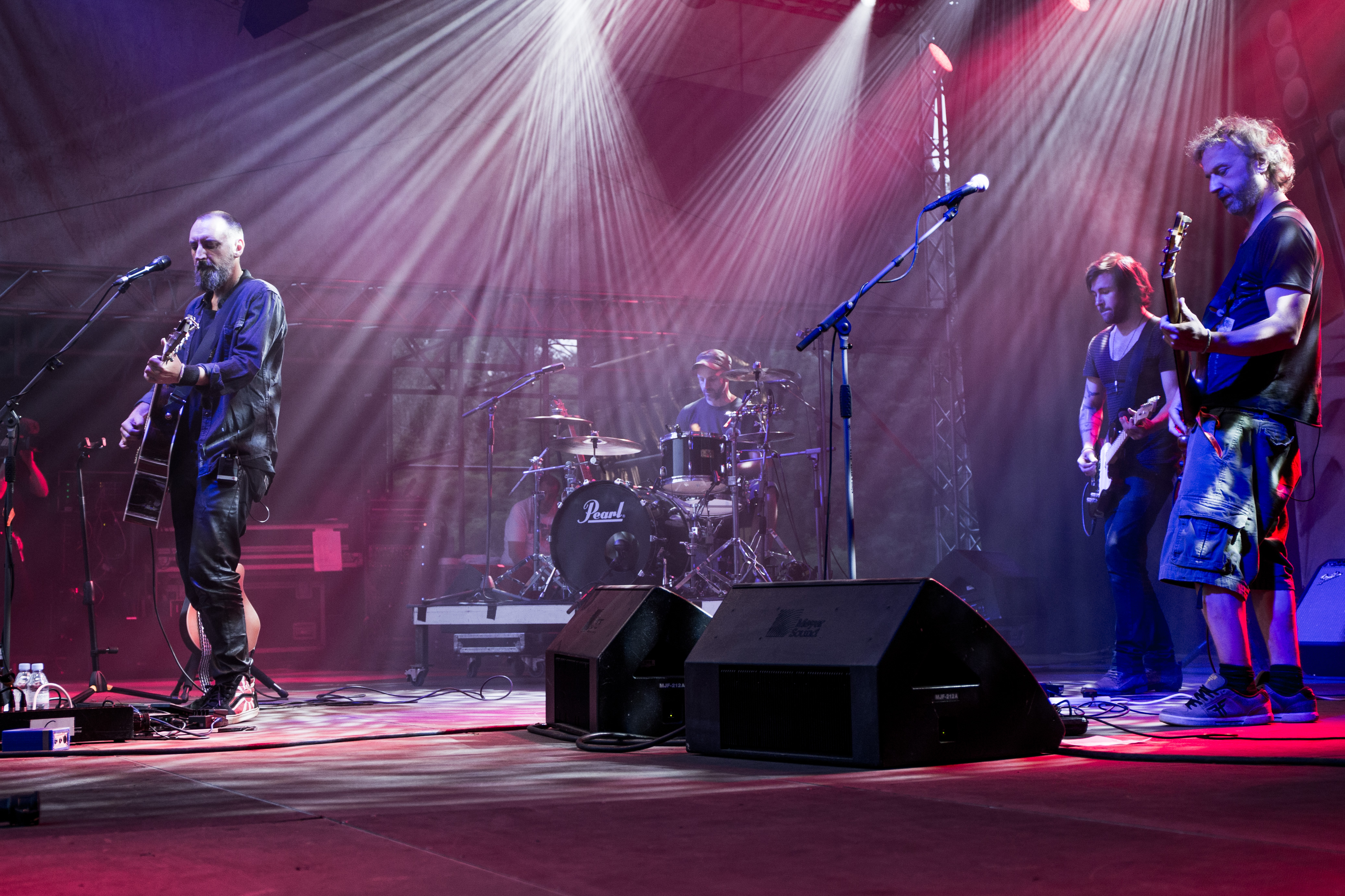 Festivalsommer This photo was created with the support of donations to Wikimedia Deutschland in the context of the CPB project "Festival Summer".